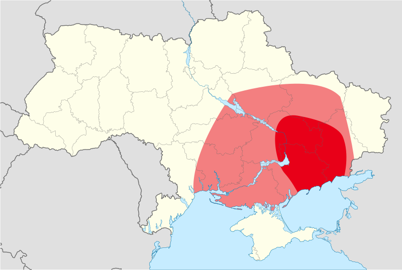 A map showing the approximate area of the anarchist free territory in Ukraine